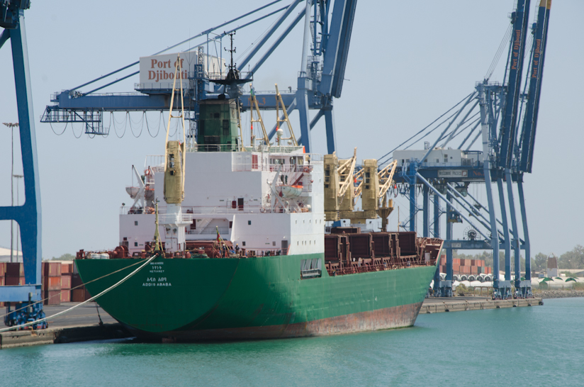 Ethiopian cargo ship in the port of Djibouti. Home port - Addis Ababa!